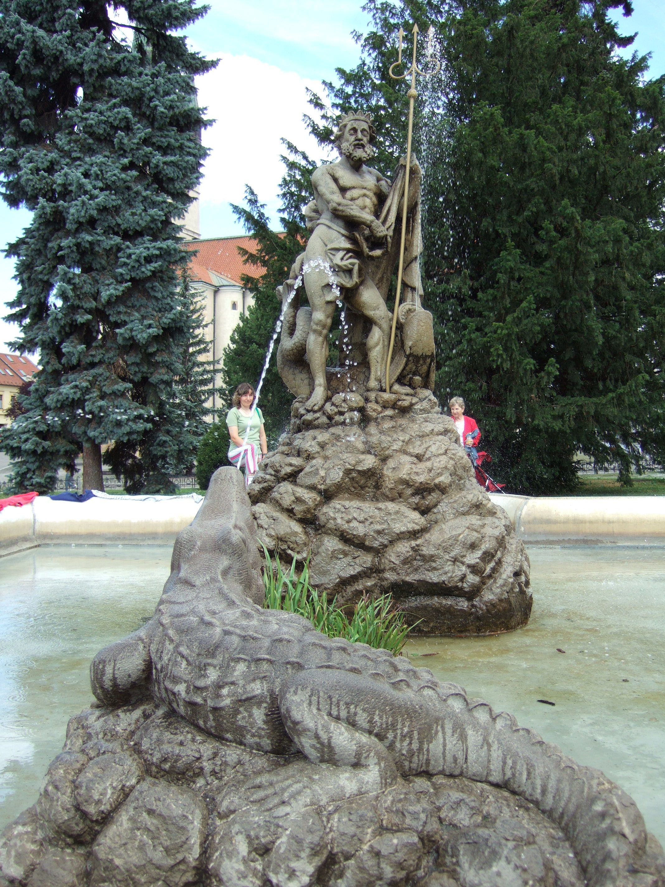 Neptune‘s fountain in Prešov, Slovakia This medium shows the protected monument with the number 707-2257/0 in the Slovak Republic.